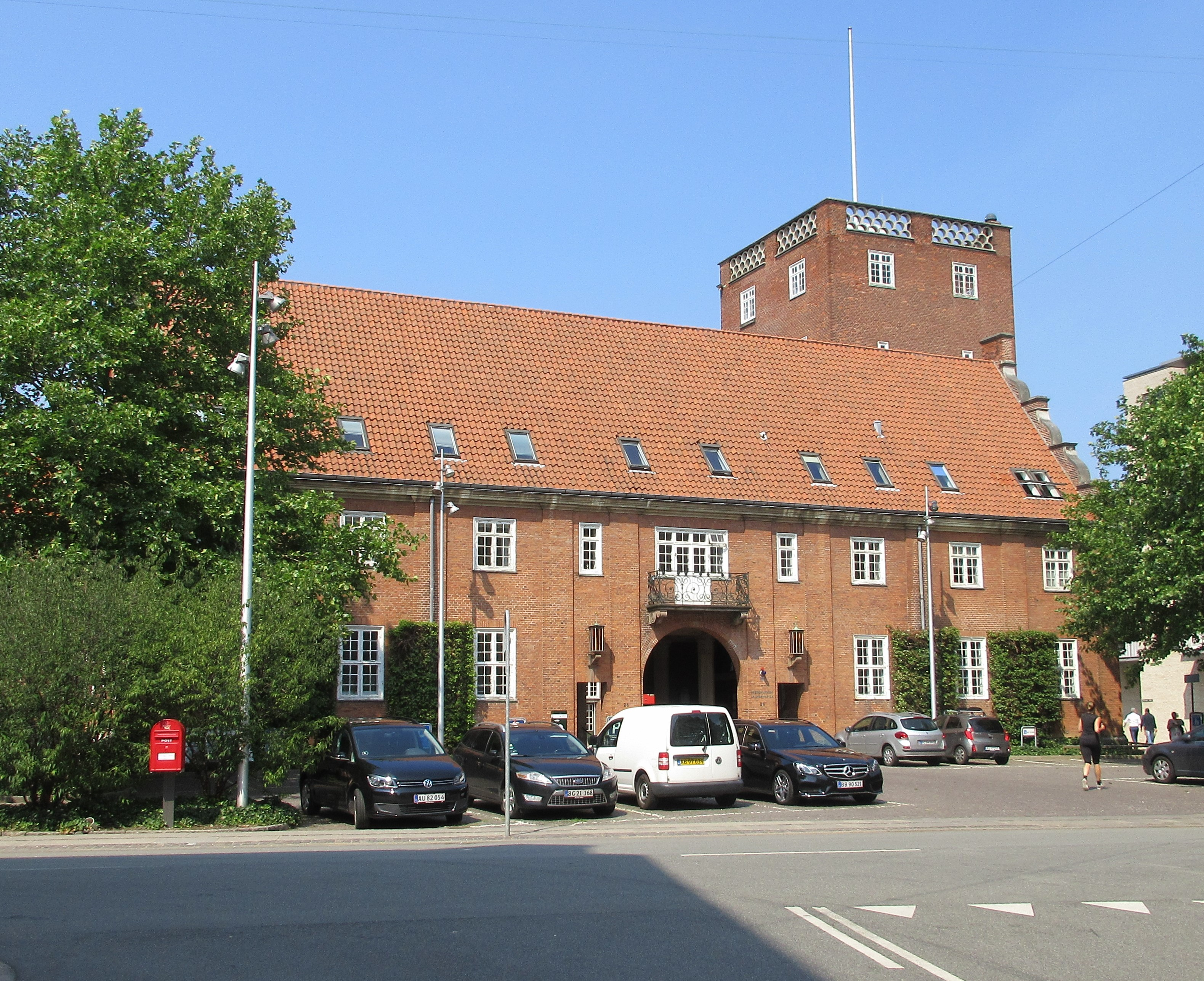 Frederiksberg Fire Station in Frederiksberg, Copenahgen, Denmark